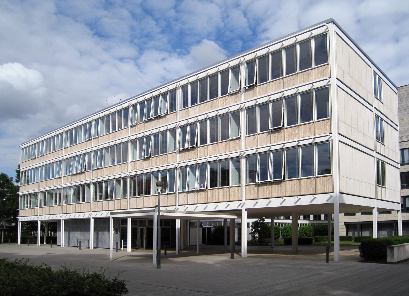 Former american consulate general at the President-Kennedy-Platz in Bremen, Germany. Built 1954 by Skidmore, Owings and Merrill.